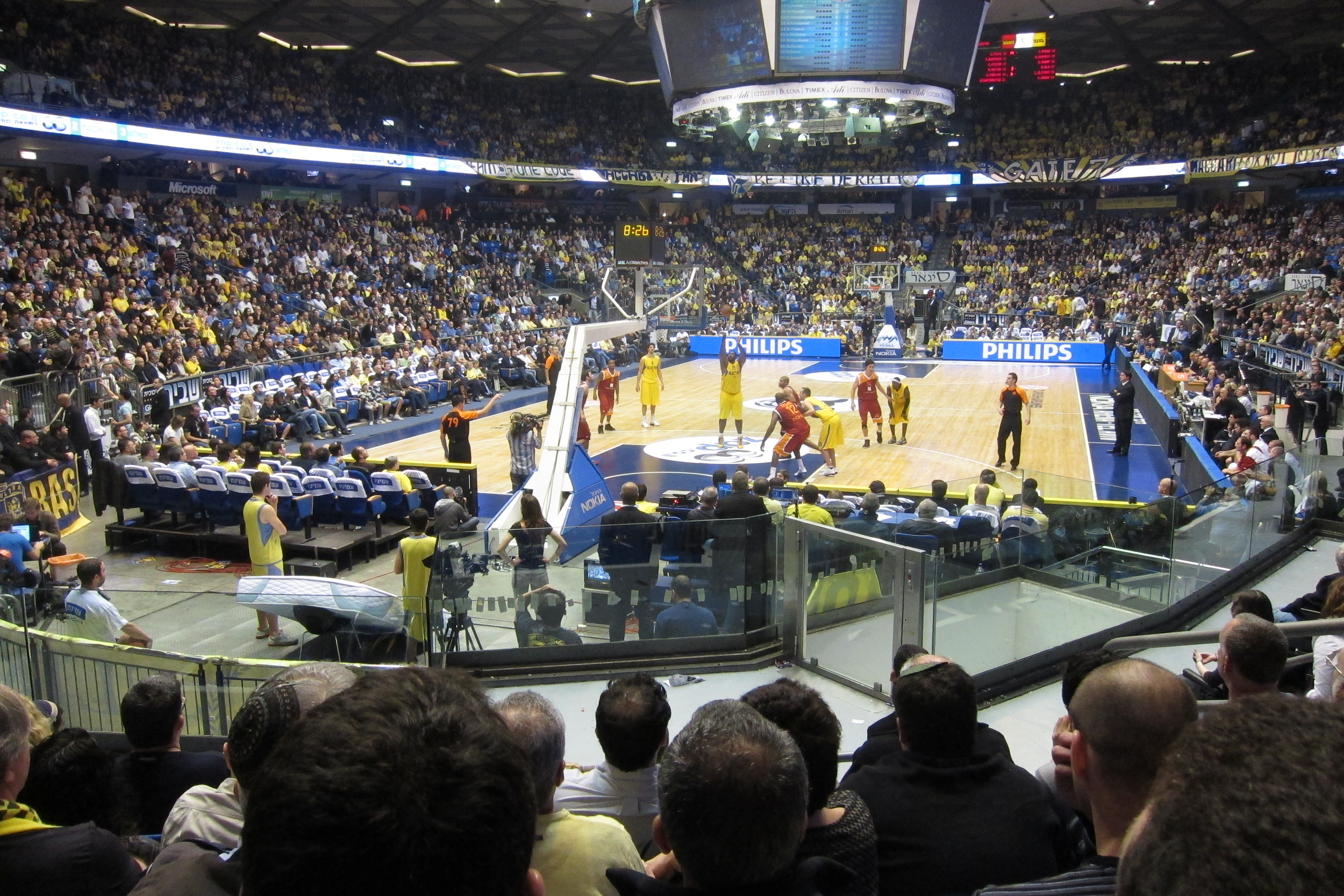 Maccabi Tel Aviv playing with Rome at Nokia Arena (99:58 for Maccabi)